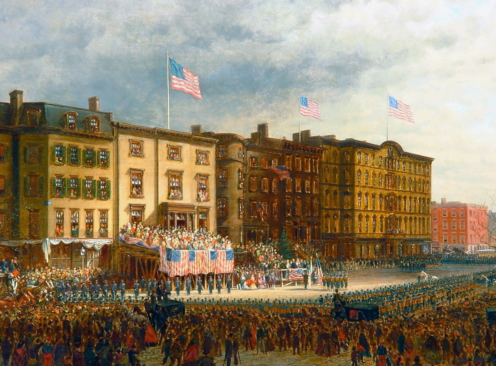 Presentation of Colors, 1864 The 20th Regiment United States colored troops formed line at the foot of Twenty Six Street, East River, and marched to Union square. Arriving in front of the Union League Club House at one o'clock. A vast crowd of citizens filled the square, and every door, window, verandah, tree, and house-top that commanded a view of the scene was peopled with spectators. Over the entrance of the Club-house was a large platform ornamented with flags and filled with ladies. In the street was another platform tastefully decorated and occupied by prominent citizens. From the stand the colors were presented by President King of Columbia College. This is a retouched picture, which means that it has been digitally altered from its original version. Modifications: Color adjusted. Looking around the internet, the only copies of this painting I could find appeared to be derived from this one, a quite yellowed copy. As other paintings by this author are fairly normally colored, I believe the yellow cast is not part of the original painting. This edit color adjusts the painting to more natural colors. Use with discretion.. The original can be viewed here: Henry-Presentation of Colors.JPG. Modifications made by Jbarta.